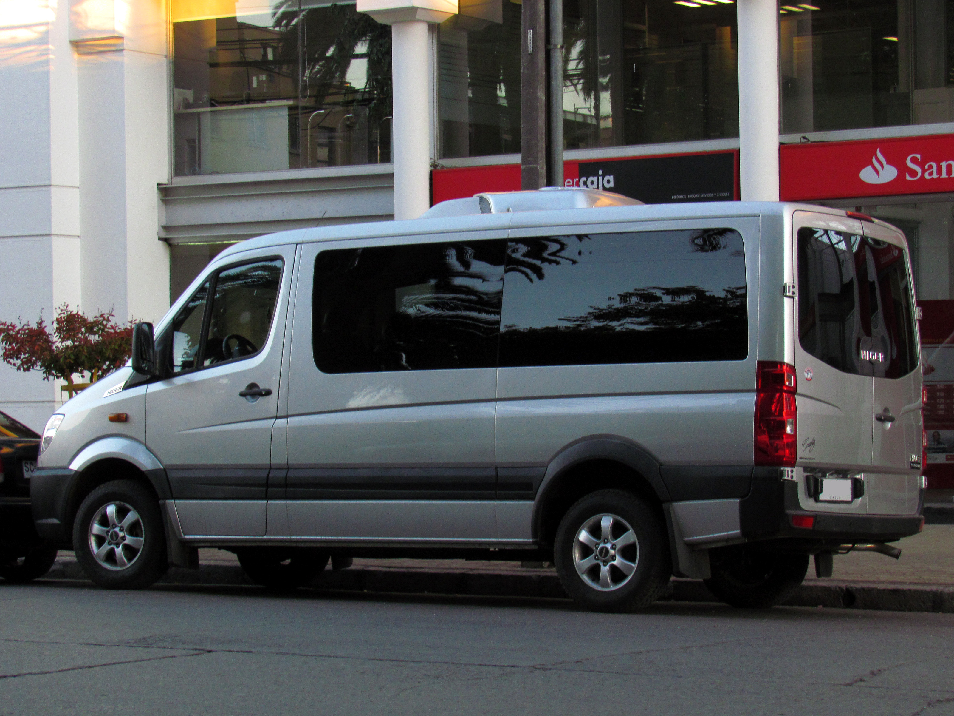 Higer Paradise van taken in 2015.